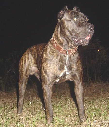 A Bandog owned by H. Lee Robinson of American Sentinel K9, LLC